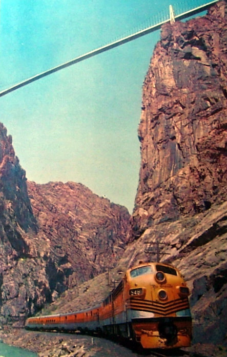 Postcard photo of the Denver and Rio Grande train "Royal Gorge" at the bottom of the gorge. The suspension bridge above is seen in the photo.